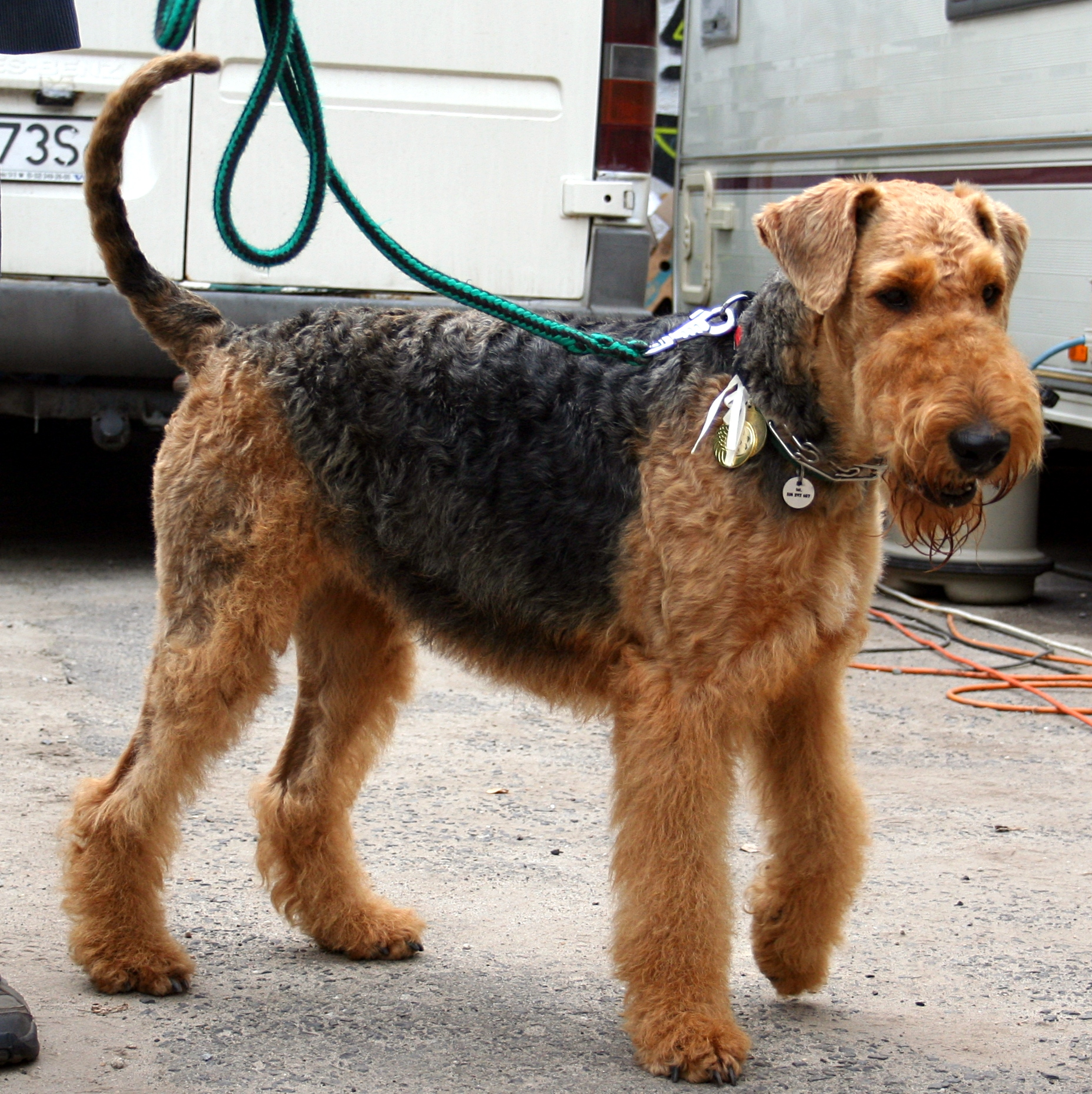 Airedale terrier during Dogs Show in Rybnik.